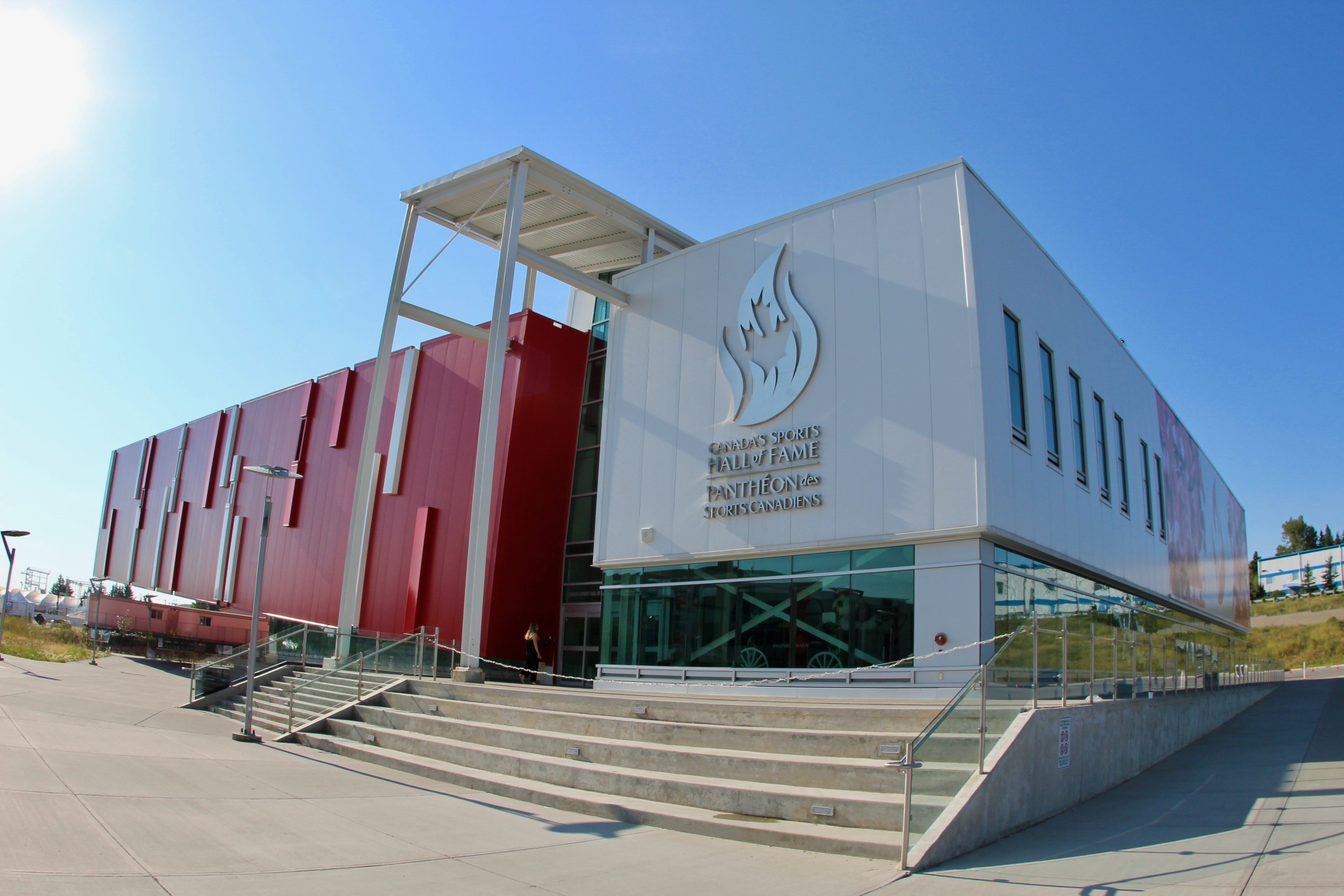 Front entrance of Canada's Sports Hall of Fame